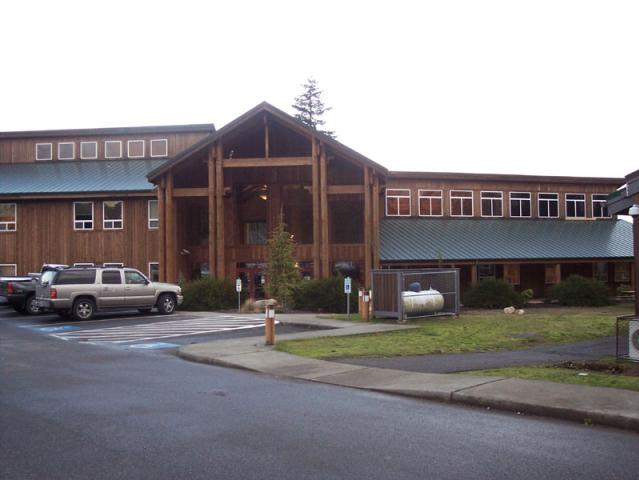 Main enterance of Squaxin Tribal Center